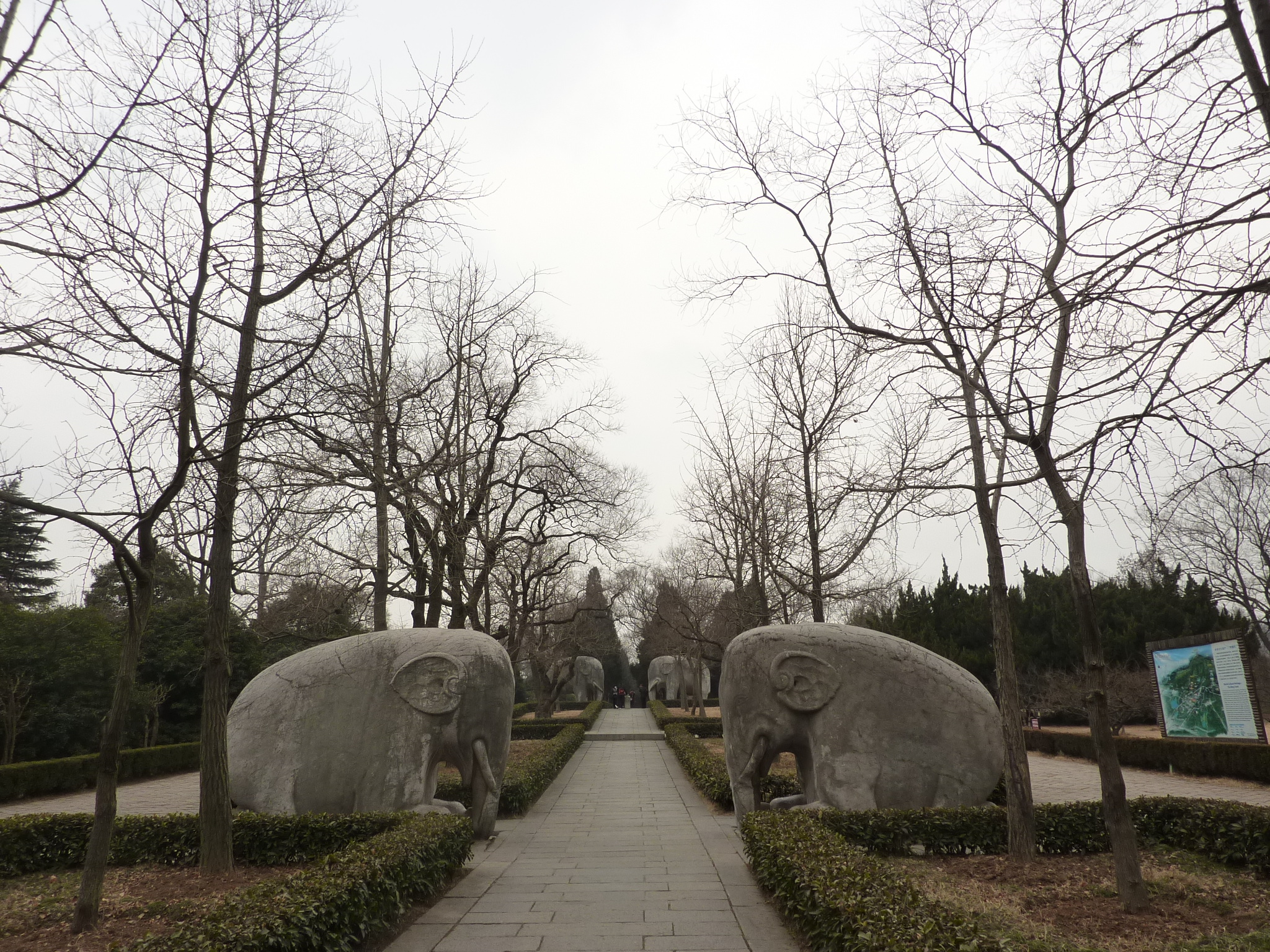 The 615-m long Stone Elephant Road is the first section of the Spirit Way (Shendao) of the Ming Xiaoling Mausoleum. It is lined with several kinds of stne animals - lions, xiezhi, camels, elephants, qilin (Chinese unicorns), and horses.